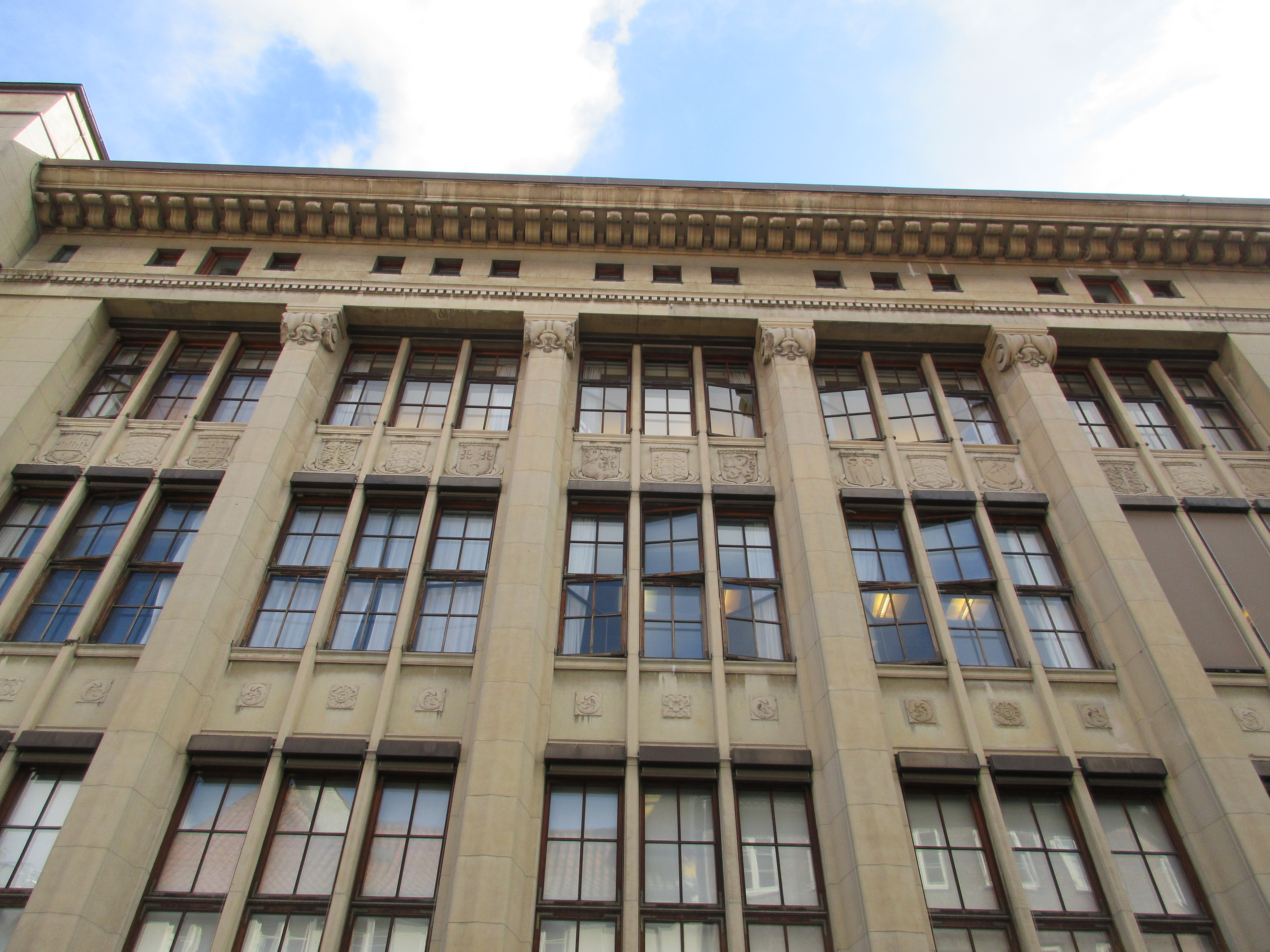 Facade from Asylgade in Copenhagen, Denmark